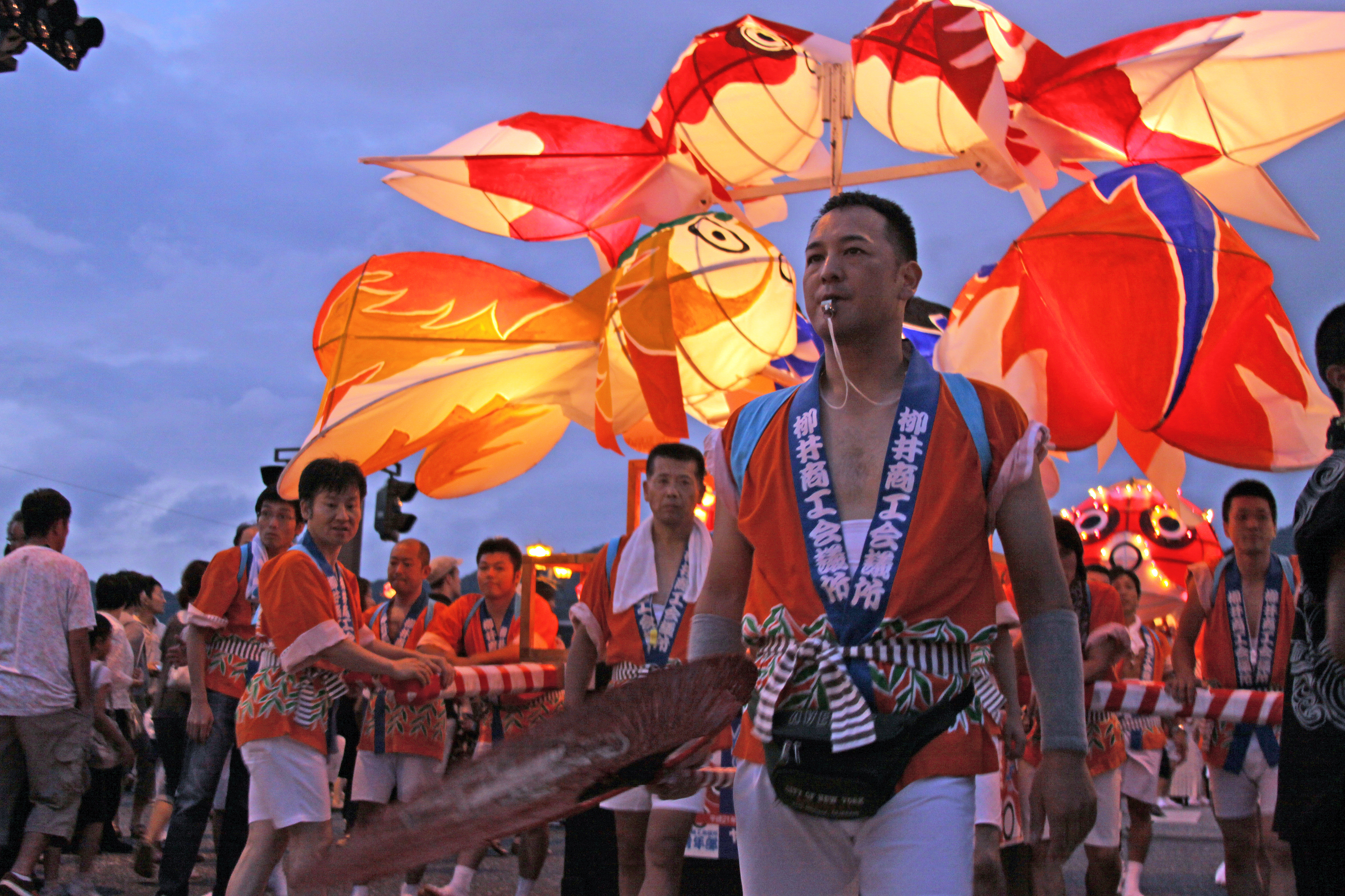 A festival particpant clears the congested streets to make room for the oncoming parade at the annual Goldfish Lantern Festival in Yanai Aug.13. The festival is an annual event that includes a variety of food and activities for the crowd to enjoy. As night fell and the goldfish lanterns illuminated the streets, the throng of people eagerly awaited the fireworks planned at the end of the festival.